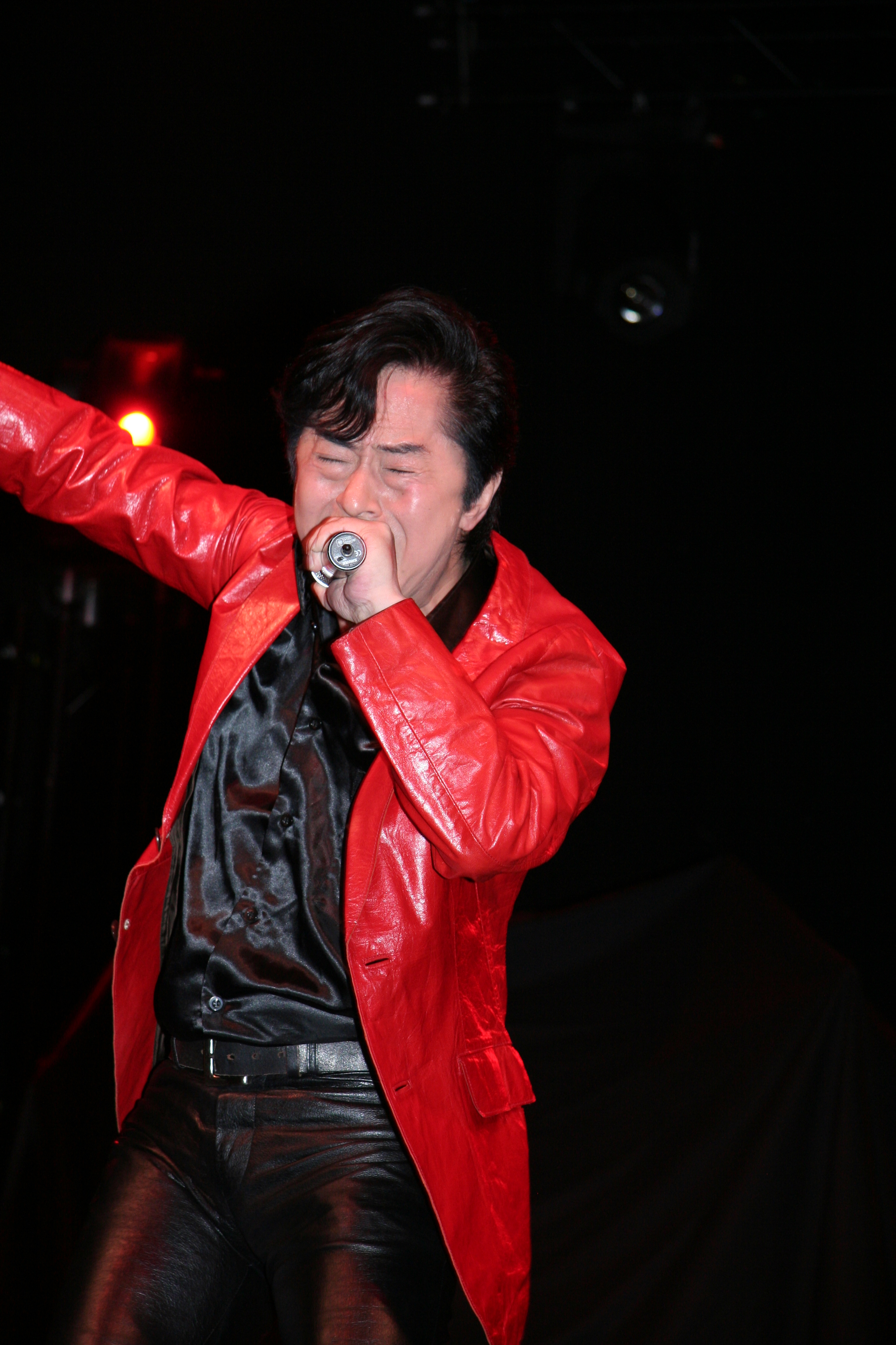 Ichiro Mizuki live at Japan Expo 2007 (Paris, France).